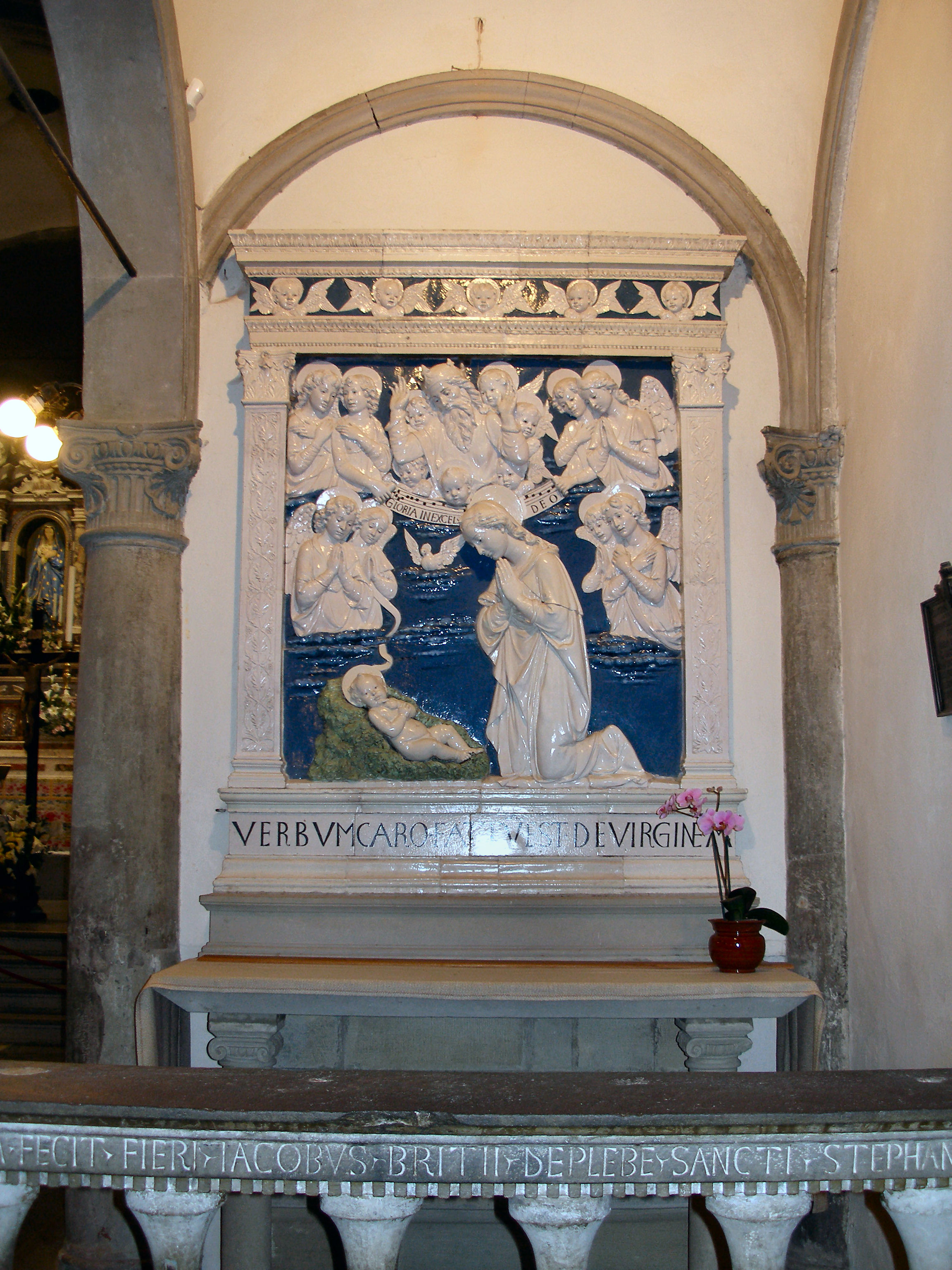 Andrea della Robbia, Birth of Christ, Santuario della Verna, Chiusi.